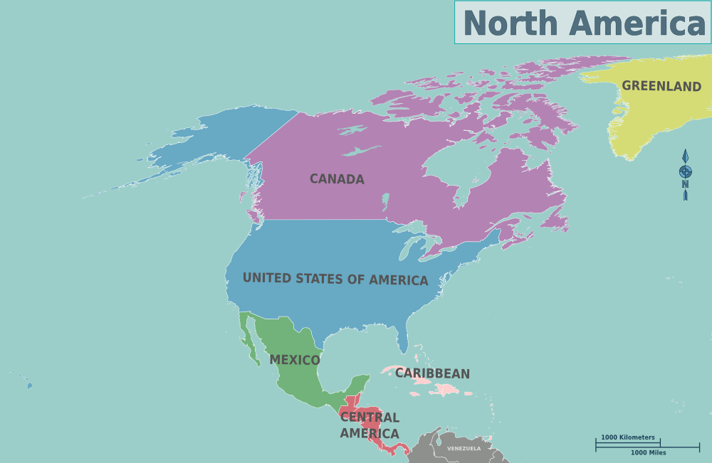 Map of North America for use on Wikivoyage, English version